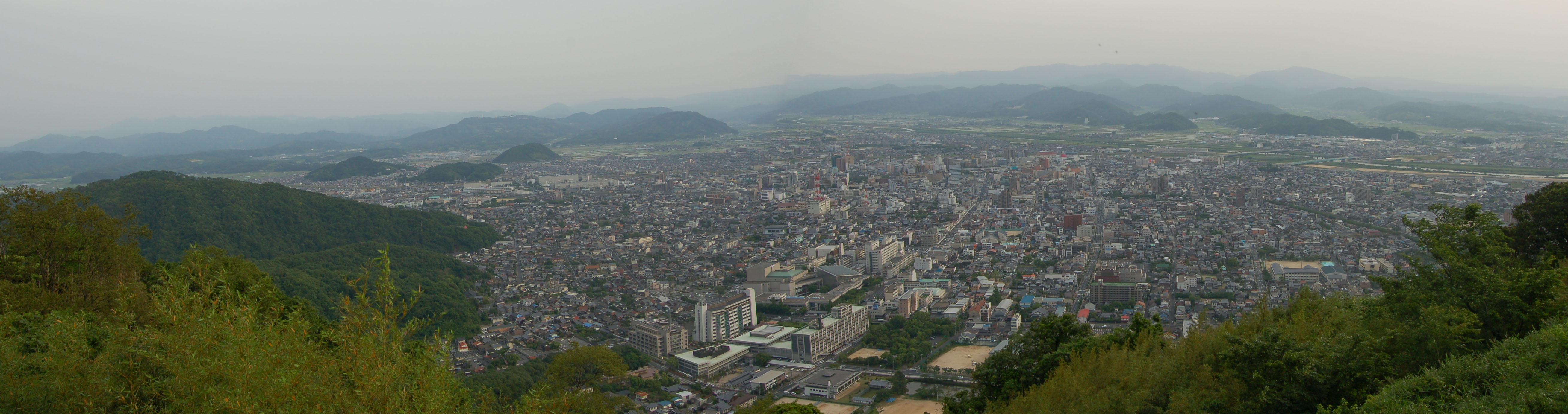 Panorama of Tottori city taken from the castle ruins hill. photo by Juan Cardona.